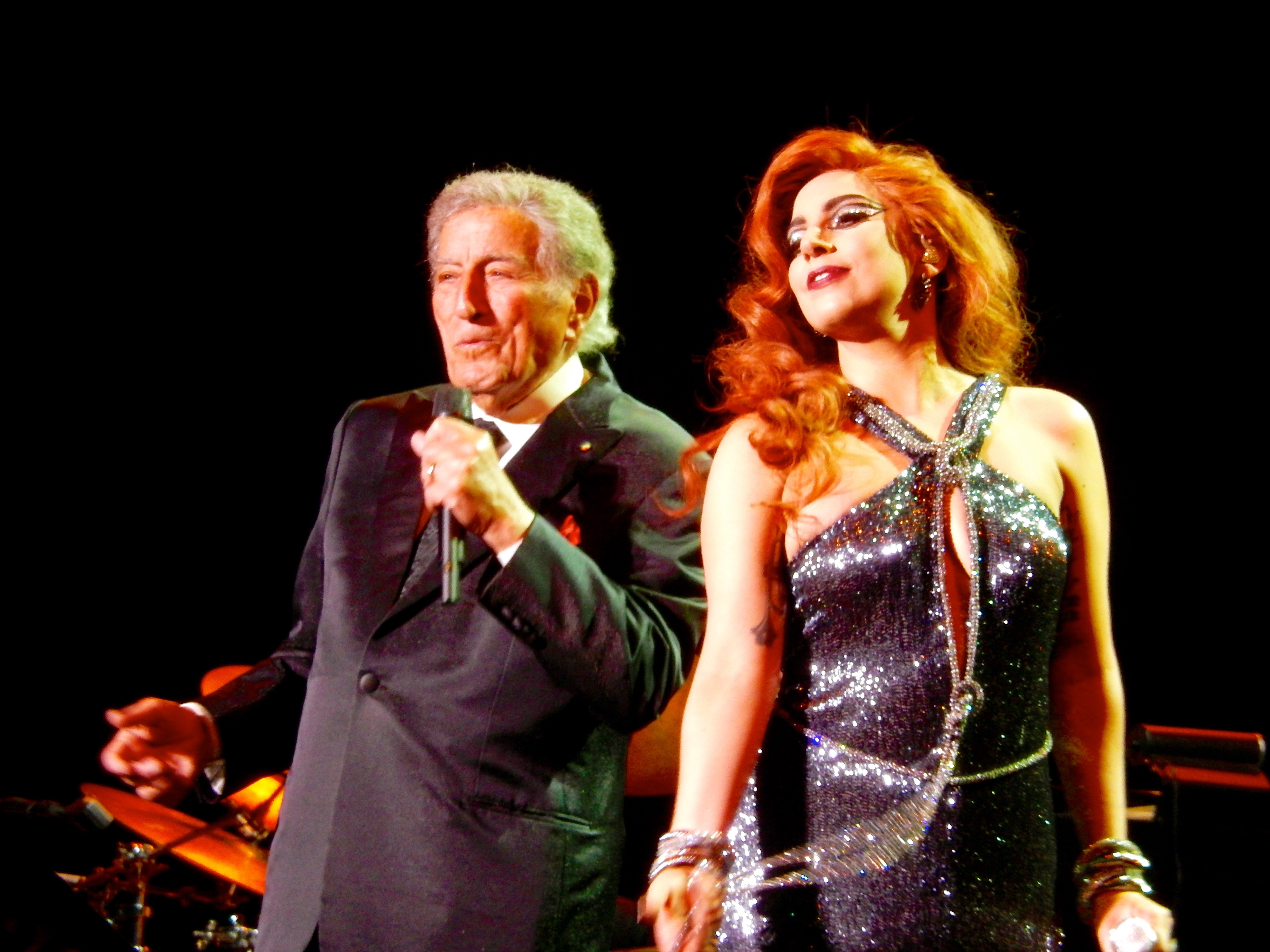 Cheek to Cheek Concert. The Axis. Planet Hollywood. Las Vegas. April 2015. Gaga and Bennett performing at Los Angeles for the Cheek to Cheek Tour